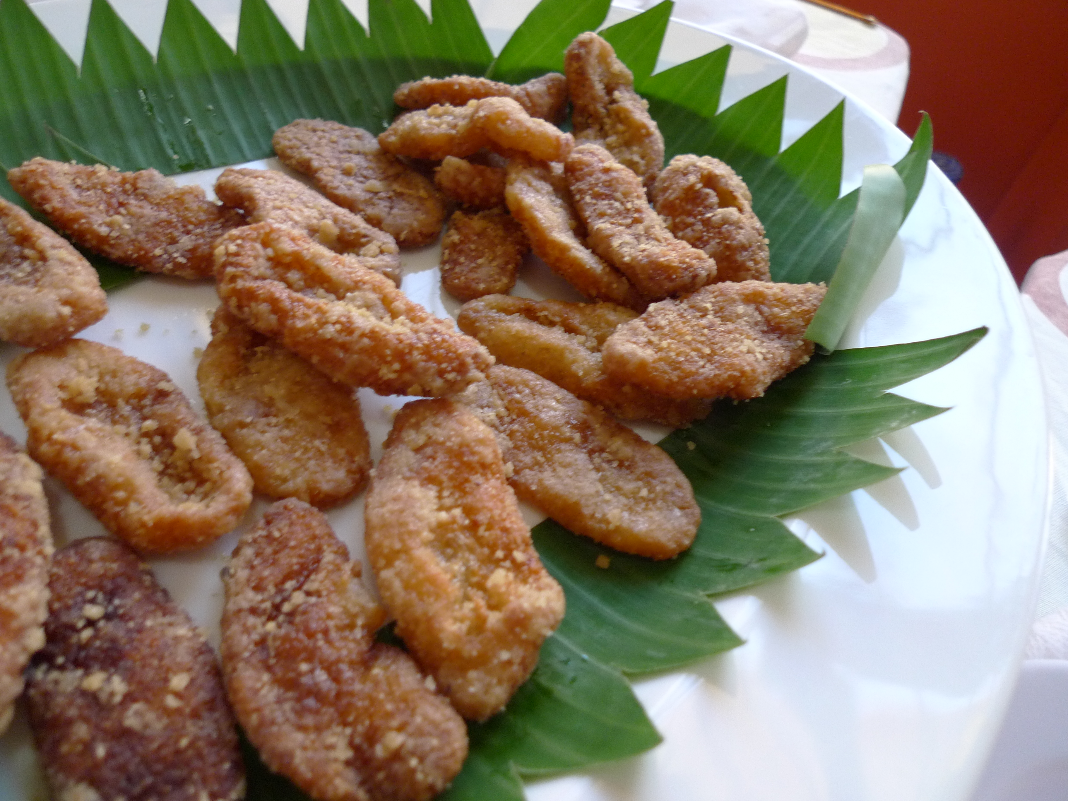 Cagayan Pampanguena - Pinakufu